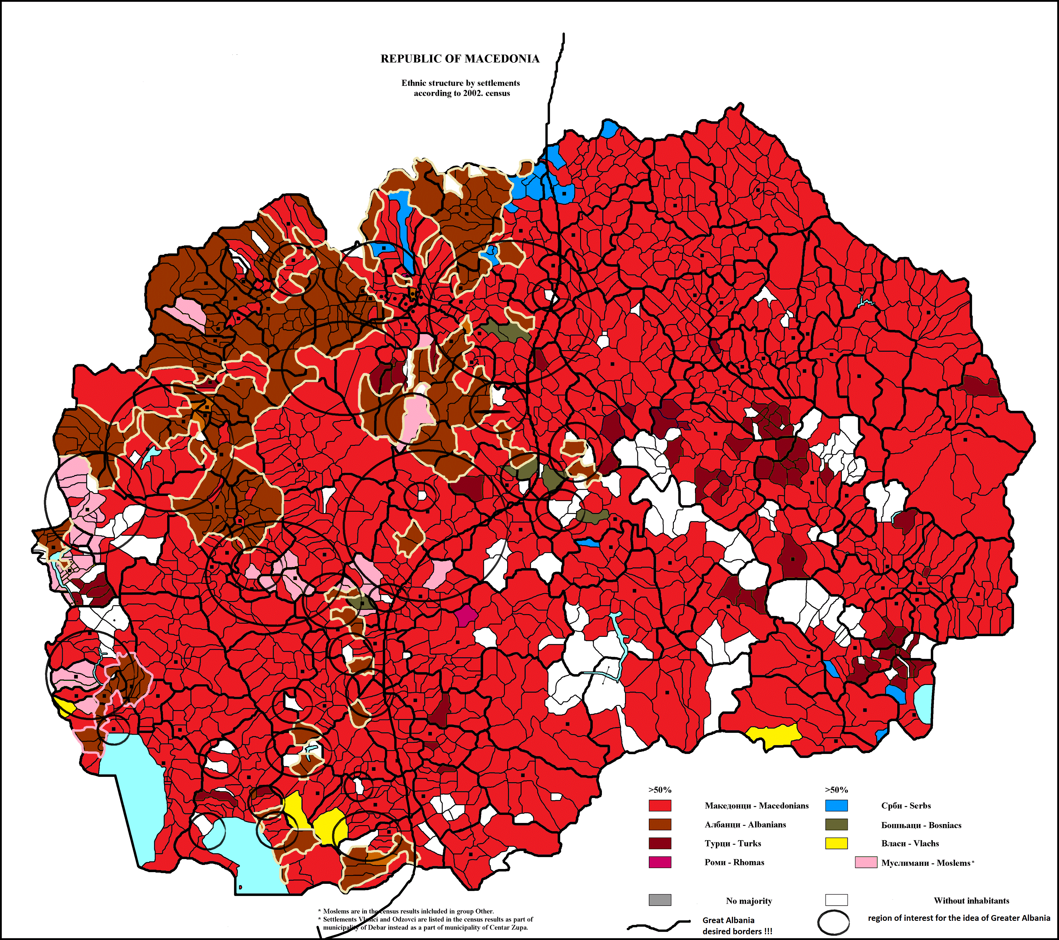 Ethnic map of Republic of Macedonia, with the major ethnic spreading of population , and specialy for the ethnic space of the Muslimans with native Macedonian who are around 100000 but they are not put on this kind of maps